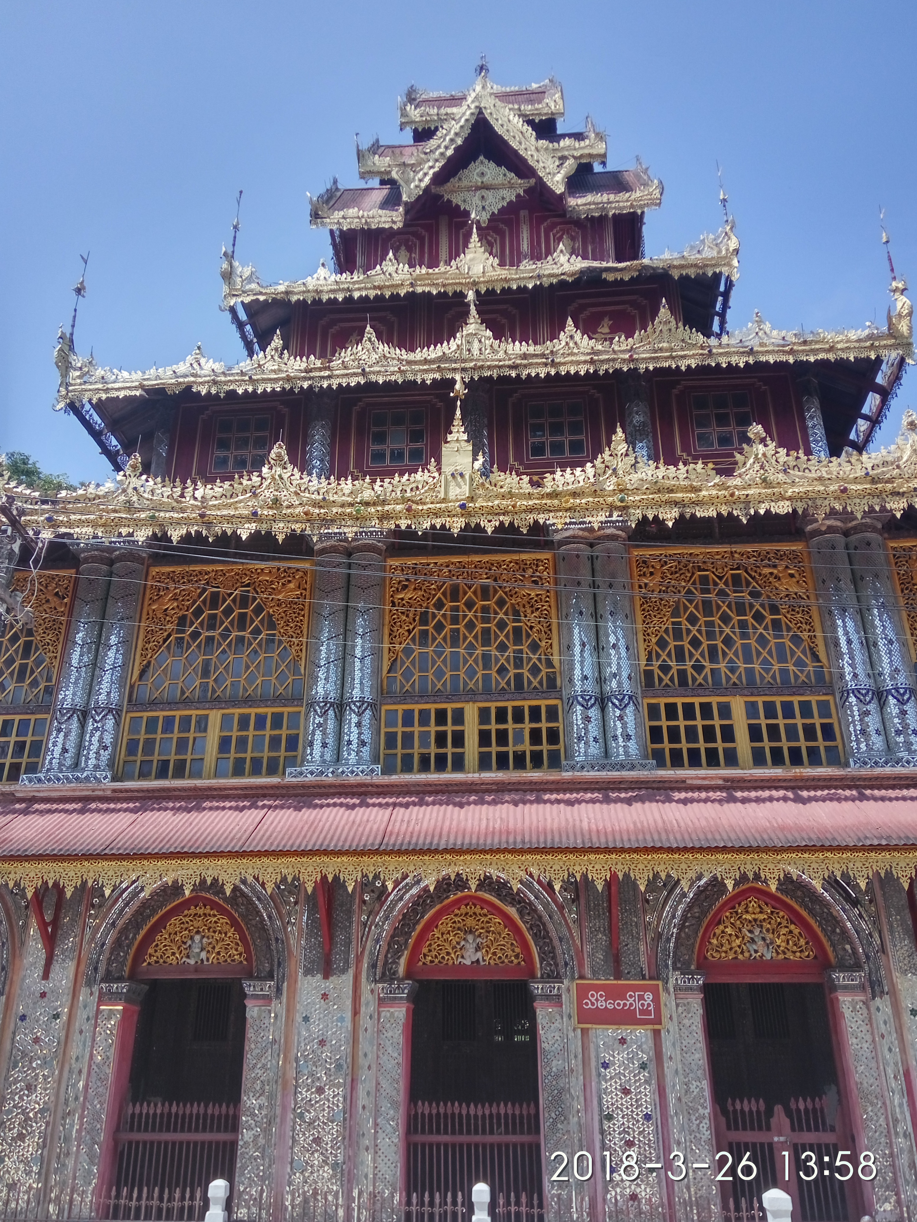 U Nar Auk Ordination Hall, Kor Nat Village, Kayin State မြန်မာဘာသာ: ဦးနာအောက် သိမ်တော်ကြီး၊ ကော့နှတ်ကျေးရွာ၊ ကရင်ပြည်နယ်